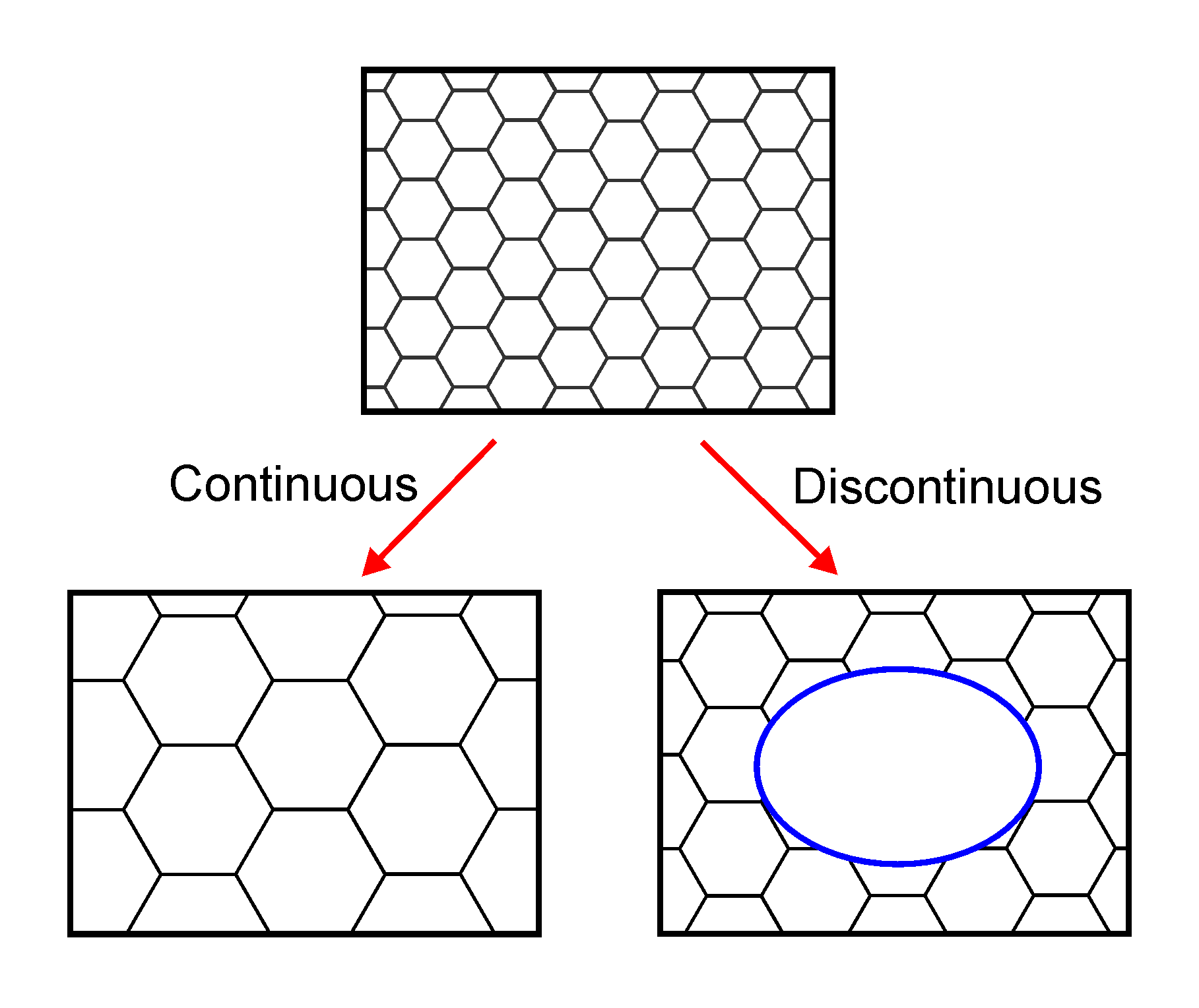 Made by Slinky Puppet on 5-5-06. Very roughly based on fig1 in 'A unified theory of recovery, recrystallisation and grain growth based on the stability and growth of cellular microstructures - I: the basic model", J.Humphreys, Acta Mat, 45, 10, pp 4231-4240.